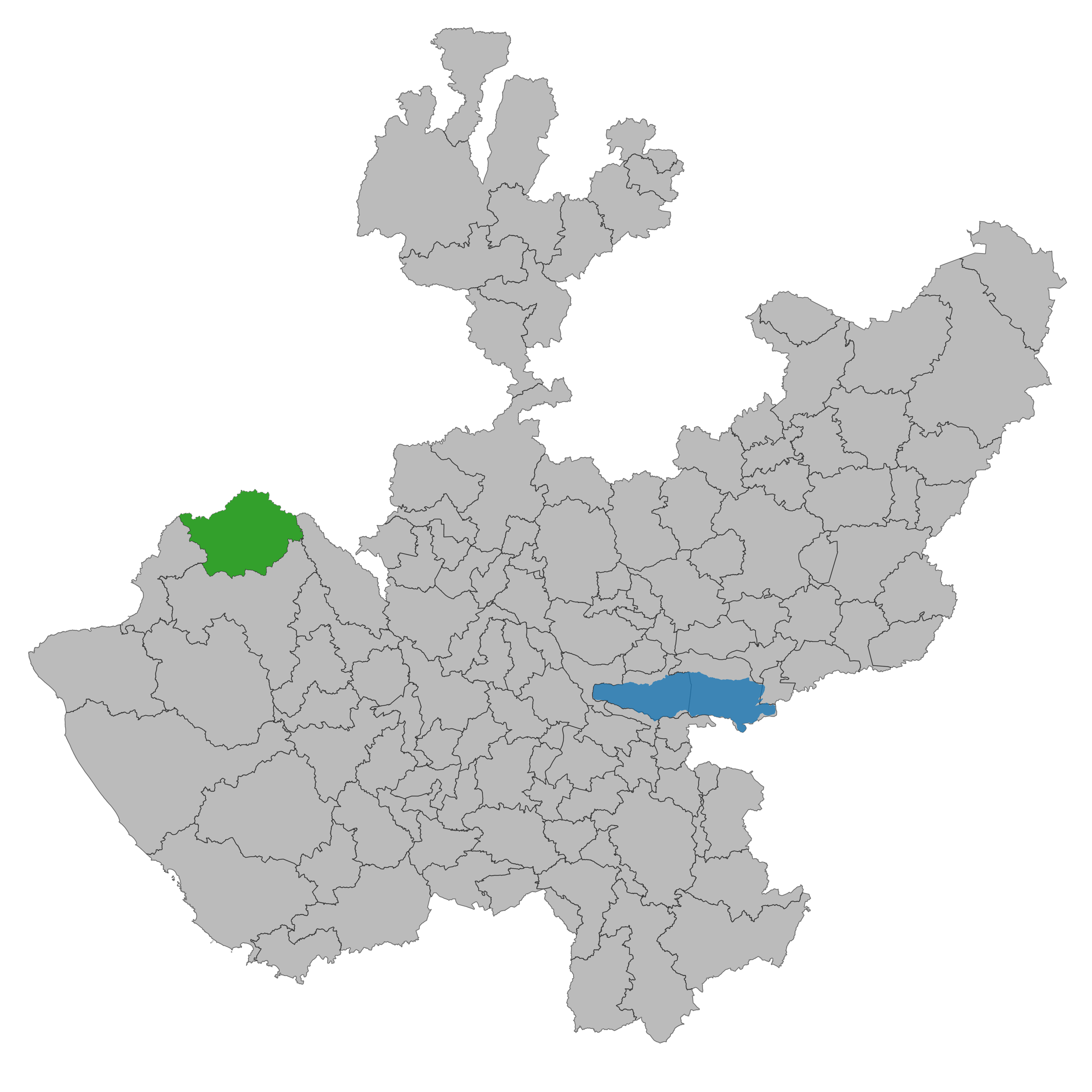 Municipality of Jalisco. Prepared with the software QGIS version 2.8.2 Wien & with information of SCINCE 2010 version 05/2013